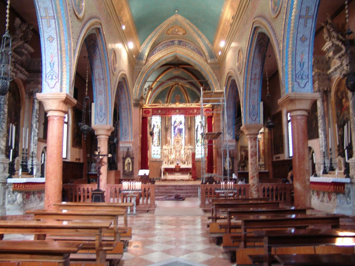 Inner view of the Church